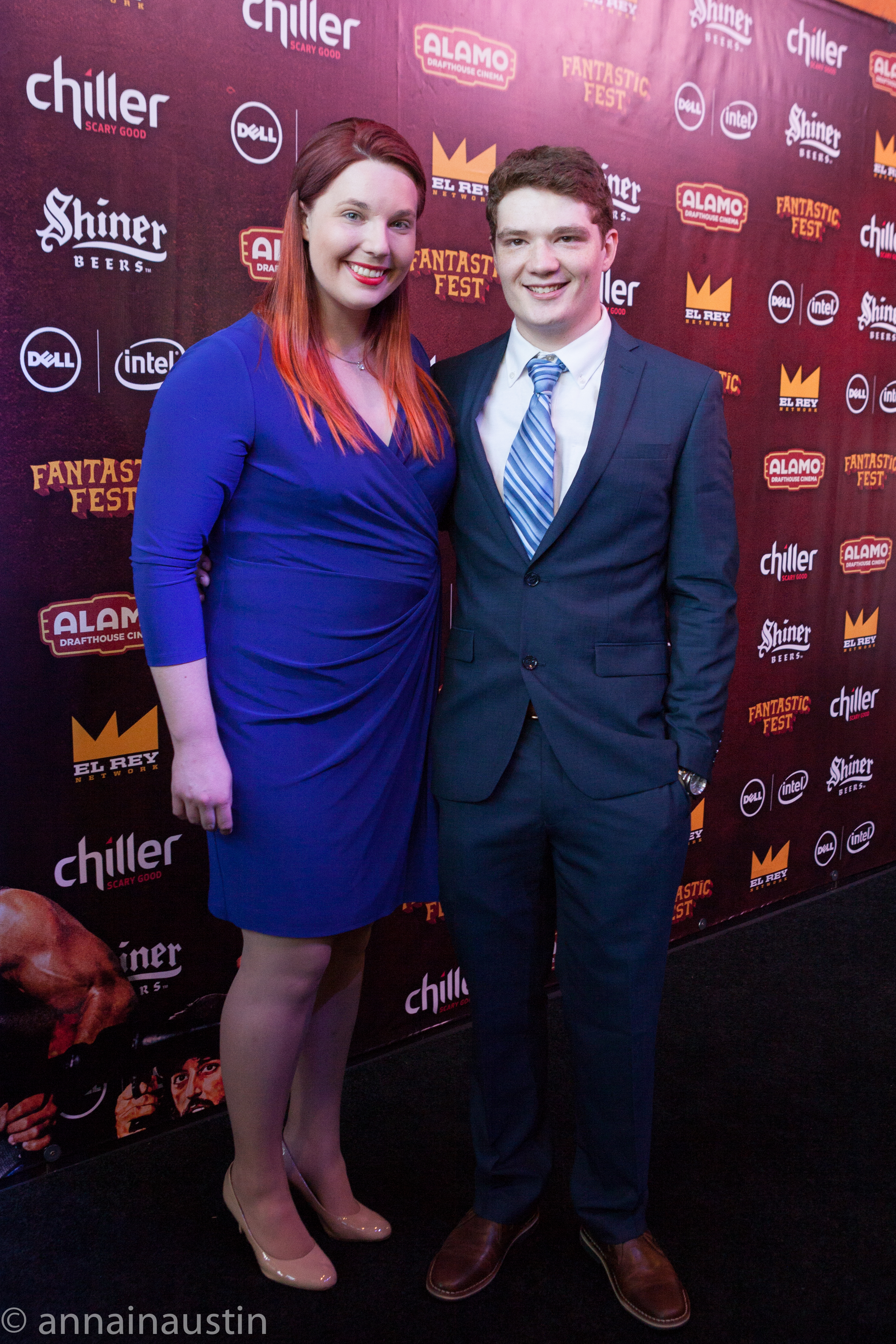 Lindsay and Michael Jones on the red carpet at the Lazer Team premiere at Fantastic Fest 2015.